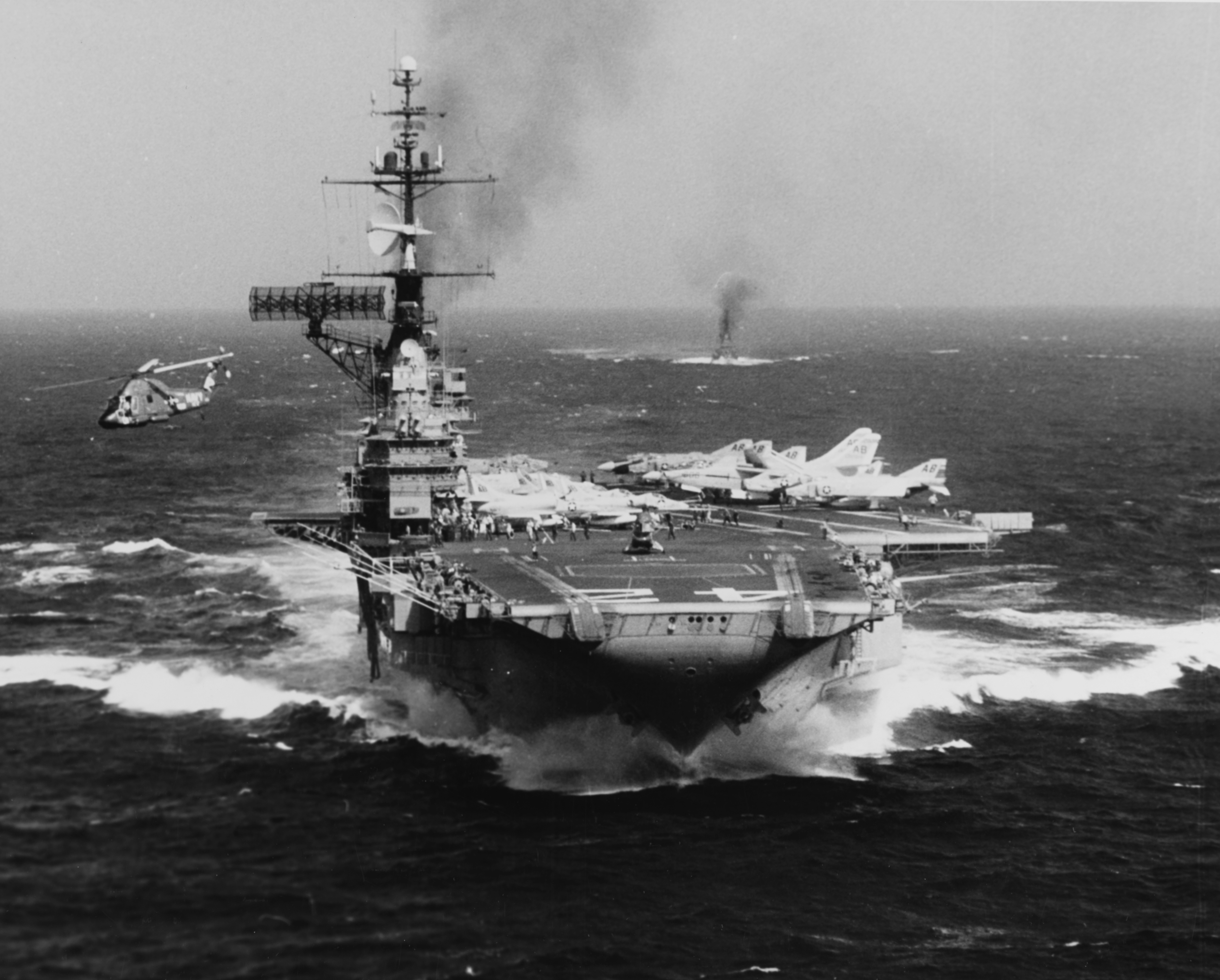 The U.S. Navy aircraft carrier USS Franklin D. Roosevelt (CVA-42) underway in the Gulf of Tonkin, during her Vietnam War combat deployment, on 19 October 1966. A Kaman UH-2A Seasprite from Helicopter Combat Supprt Squadron 2 (HC-2) Det.42 is in flight at left. HC-2 Det.42 was assigned to Attack Carrier Air Wing 1 (CVW-1) aboard the Franklin D. Roosevelt for a deployment to Vietnam from 21 June 1966 to 21 February 1967.